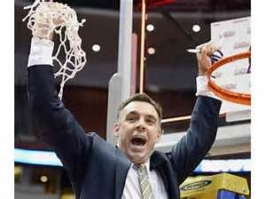 2015 Big West Tournament Championship, Coach Russell Turner